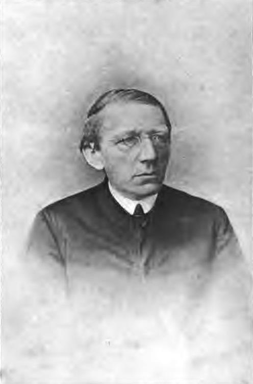 Franz Heinrich Reusch